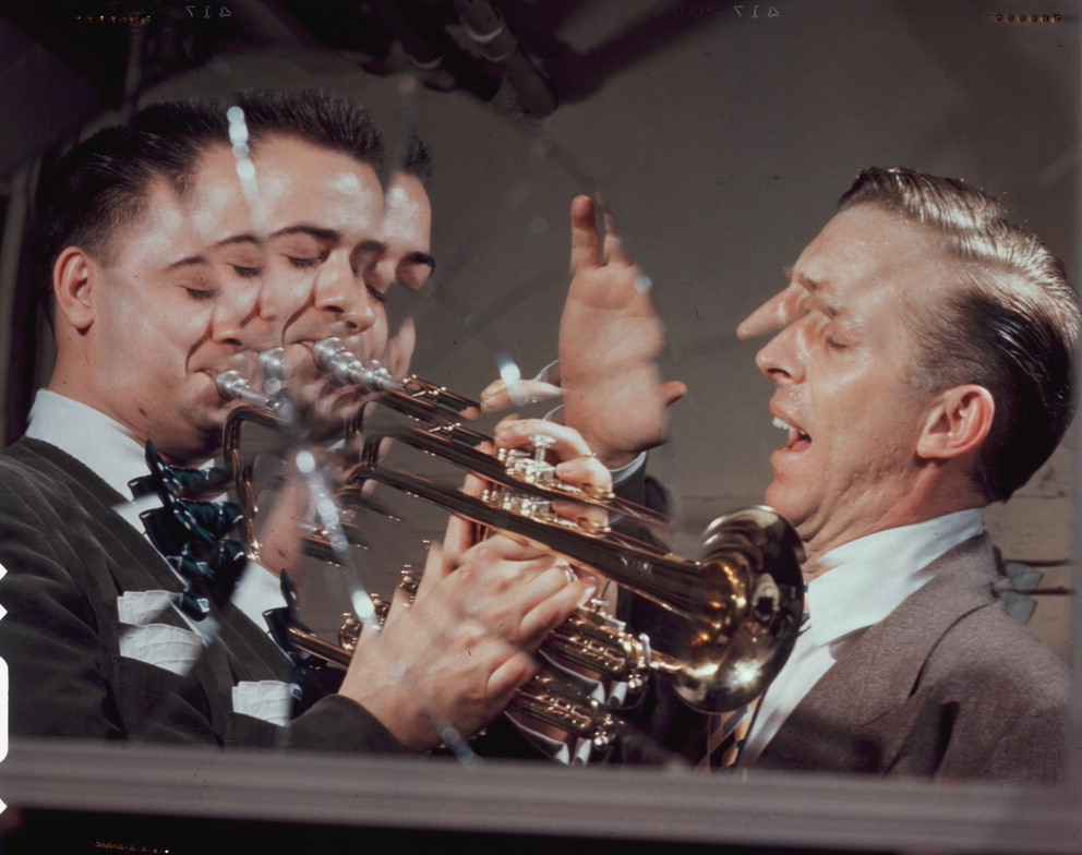 Portrait of Buddy Childers and Stan Kenton, Richmond, Va., 1947 or 1948.